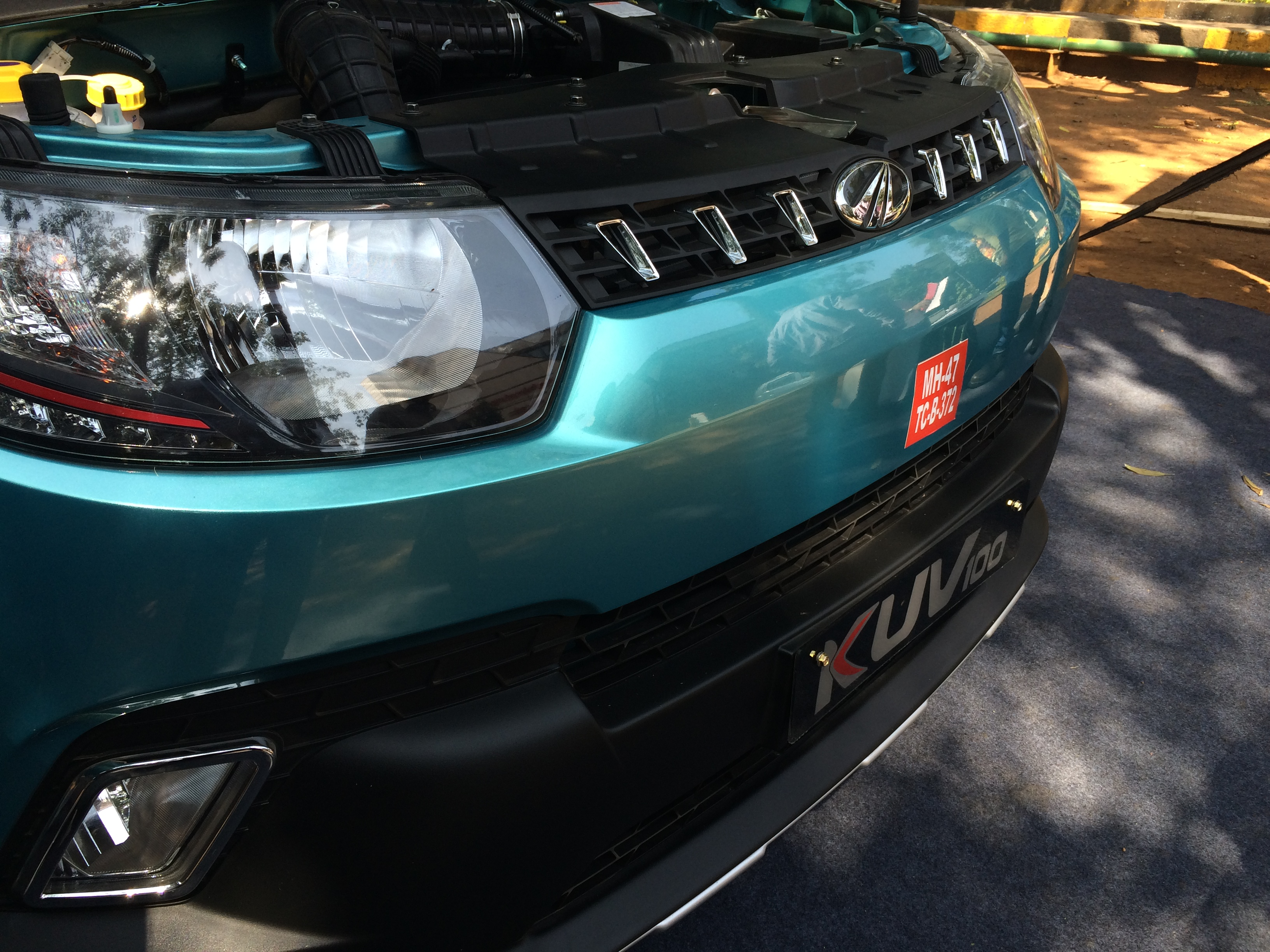 Front design details of Mahindra KUV100